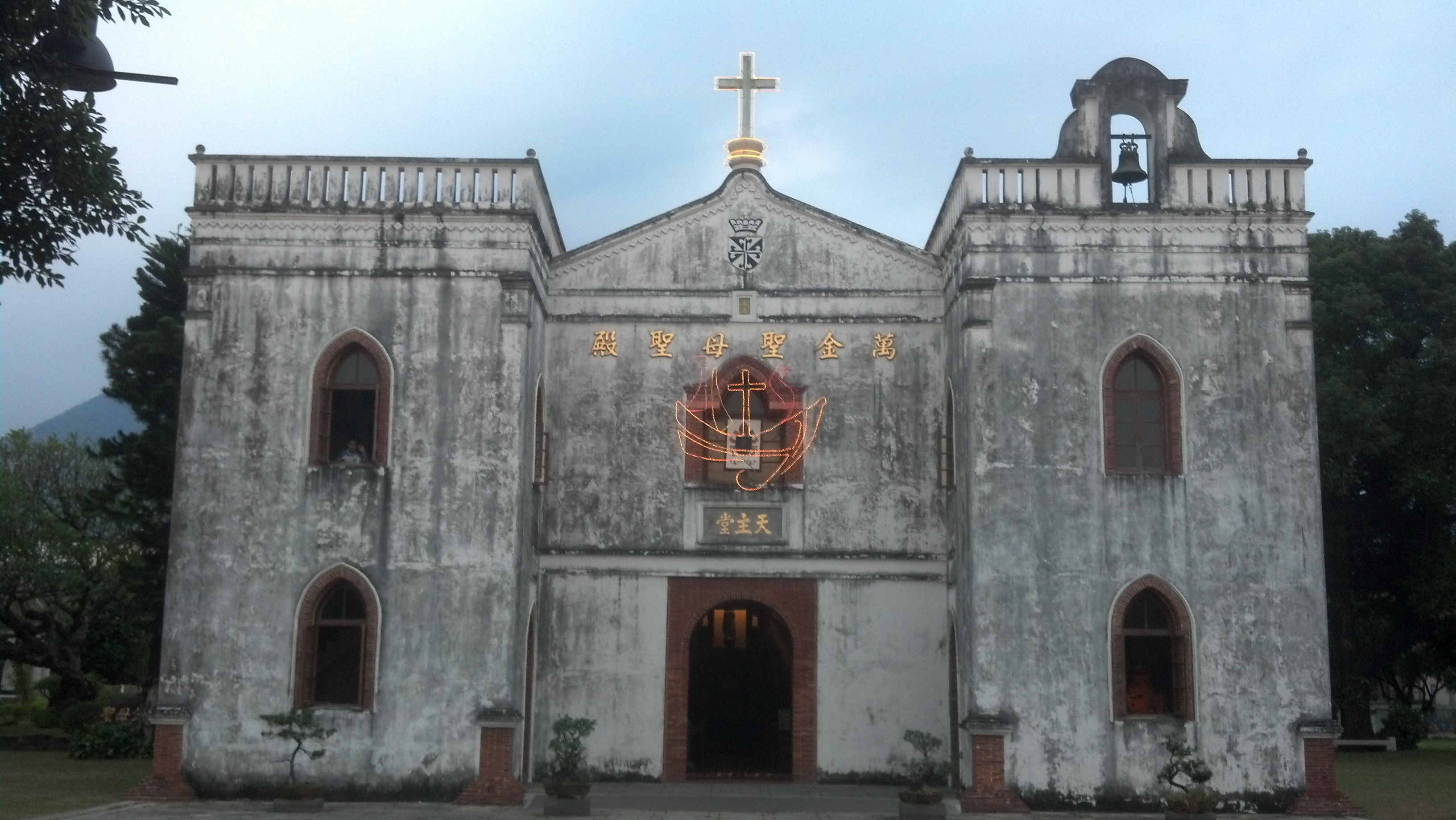 Wanchin Church in Pingtung county, Taiwan